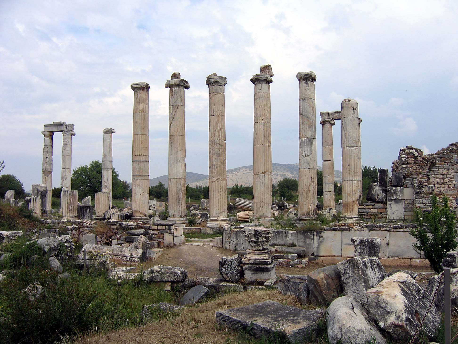 I took this picture on May 3, 2006. It is also available online at flickr.